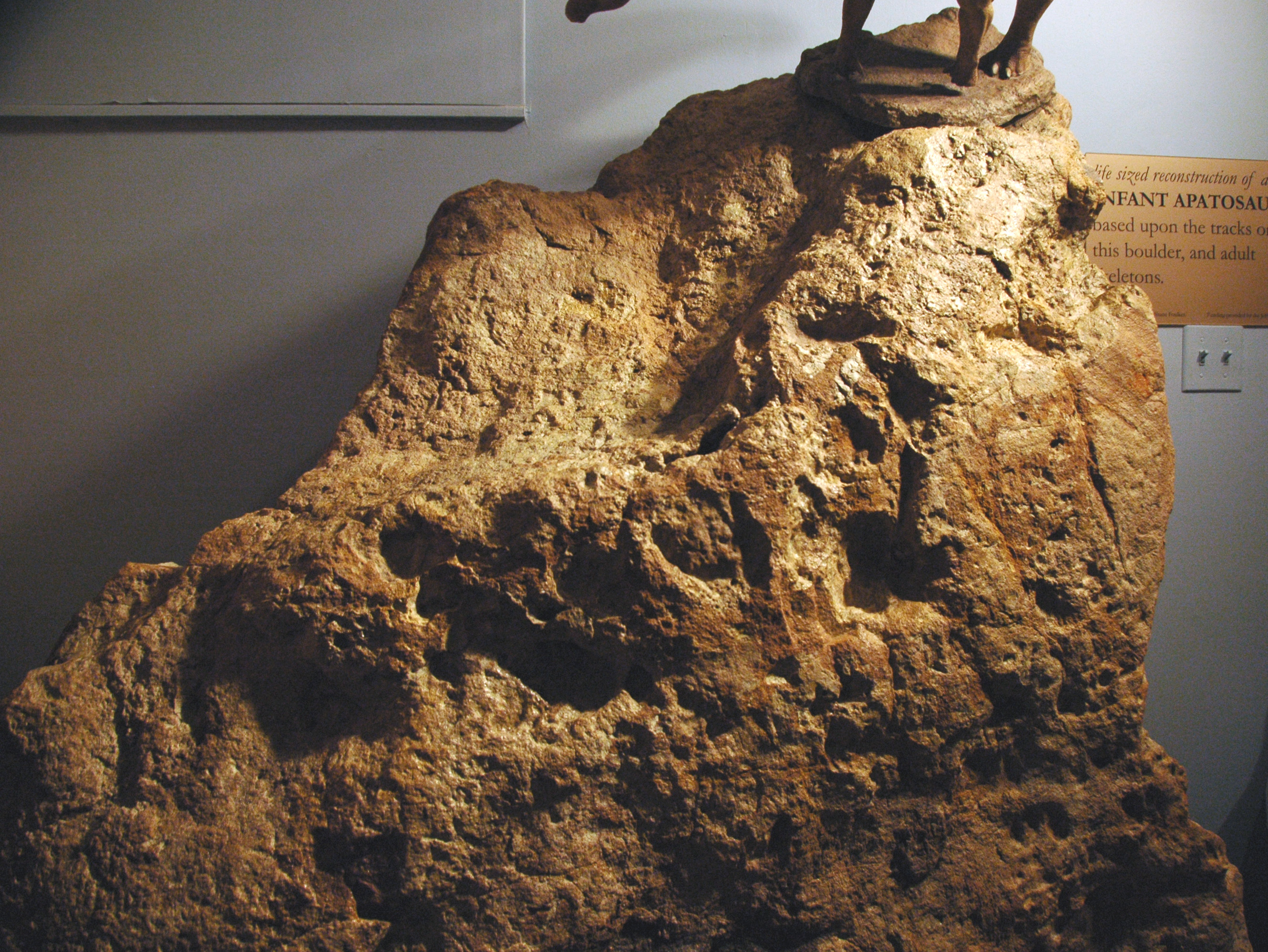 Infant Apatosaurus dinosaur tracks from the Jurassic of Colorado, USA (public display, Morrison Natural History Museum, Morrison, Colorado, USA). This rock is a channel sandstone, deposited in an ancient river or stream. The sandstone block has dinosaur bones in it, plus some remarkable dinosaur tracks on its top surface. The large depression at the top left part of the block (below the head of the model) is an adult sauropod dinosaur footprint, attributed to Apatosaurus. The row of shadowed depressions below the adult track is a set of infant Apatosaurus footprints. Claw impressions are present. No tail drag marks are present (dinosaur tail traces are very rare everywhere on Earth - dinosaurs didn't want to drag their tails, because friction would slow them down, plus it would cause pain). Stratigraphy: Morrison Formation, Upper Jurassic Locality: Quarry 5, Dinosaur Ridge, west of Denver, north-central Colorado, USA Trace fossils are any indirect evidence of ancient life. They refer to features in rocks that do not represent parts of the body of a once-living organism. Traces include footprints, tracks, trails, burrows, borings, and bitemarks. Body fossils provide information about the morphology of ancient organisms, while trace fossils provide information about the behavior of ancient life forms. Interpreting trace fossils and determination of the identity of a trace maker can be straightforward (for example, a dinosaur footprint represents walking behavior) or not. Sediments that have trace fossils are said to be bioturbated. Burrowed textures in sedimentary rocks are referred to as bioturbation. Trace fossils have scientific names assigned to them, in the same style & manner as living organisms or body fossils.